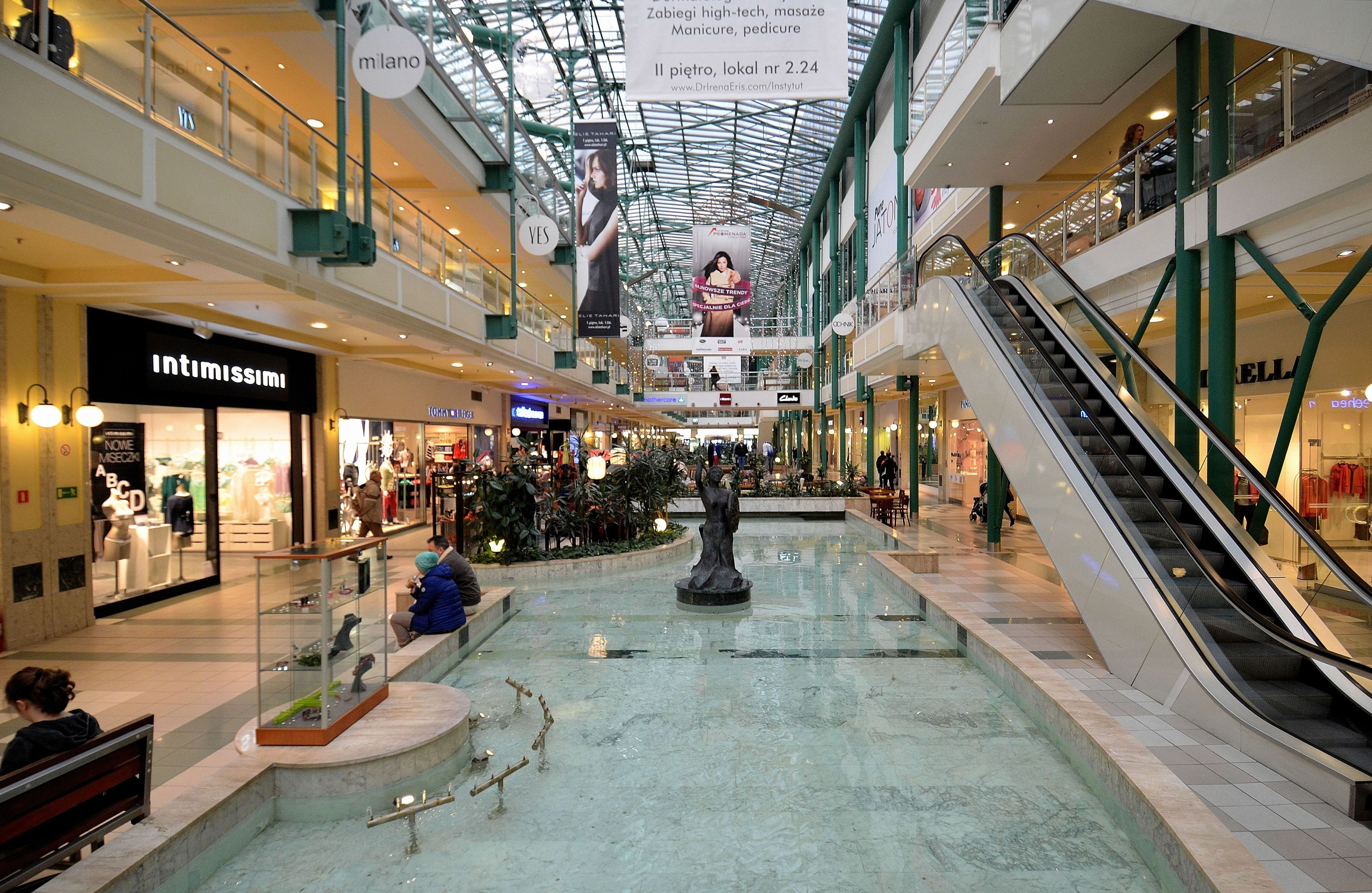 Interior of Atrium Promenada shopping mall in Warsaw